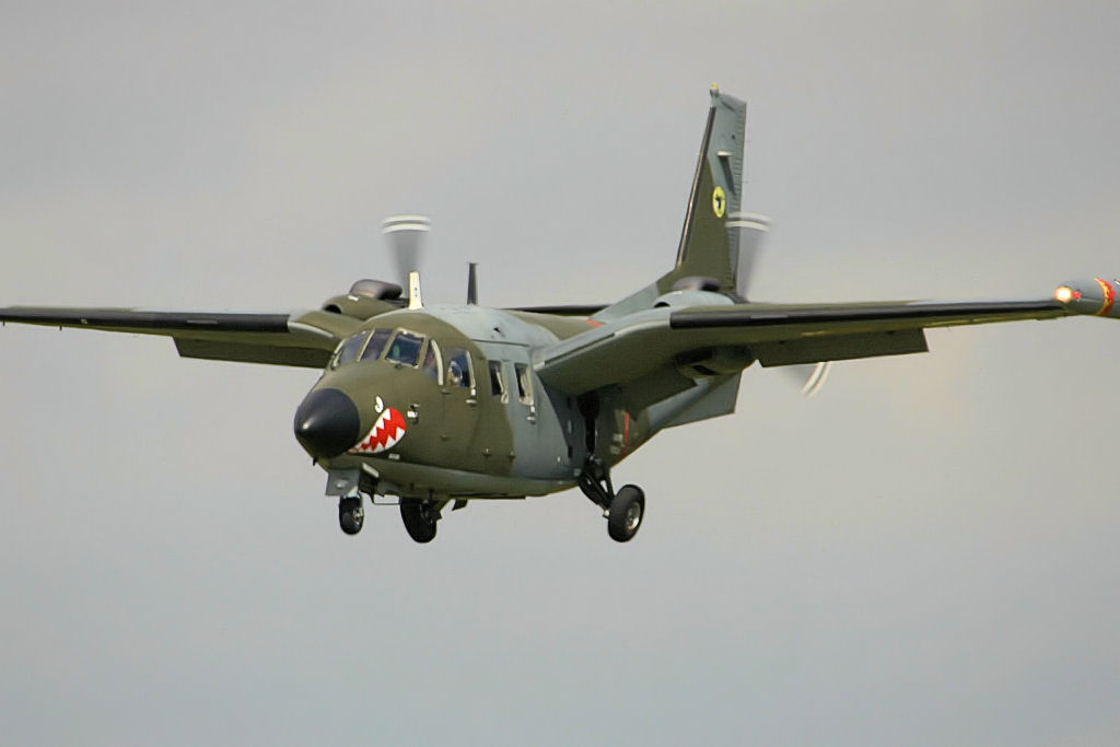 P166DL-3 - RIAT 2004